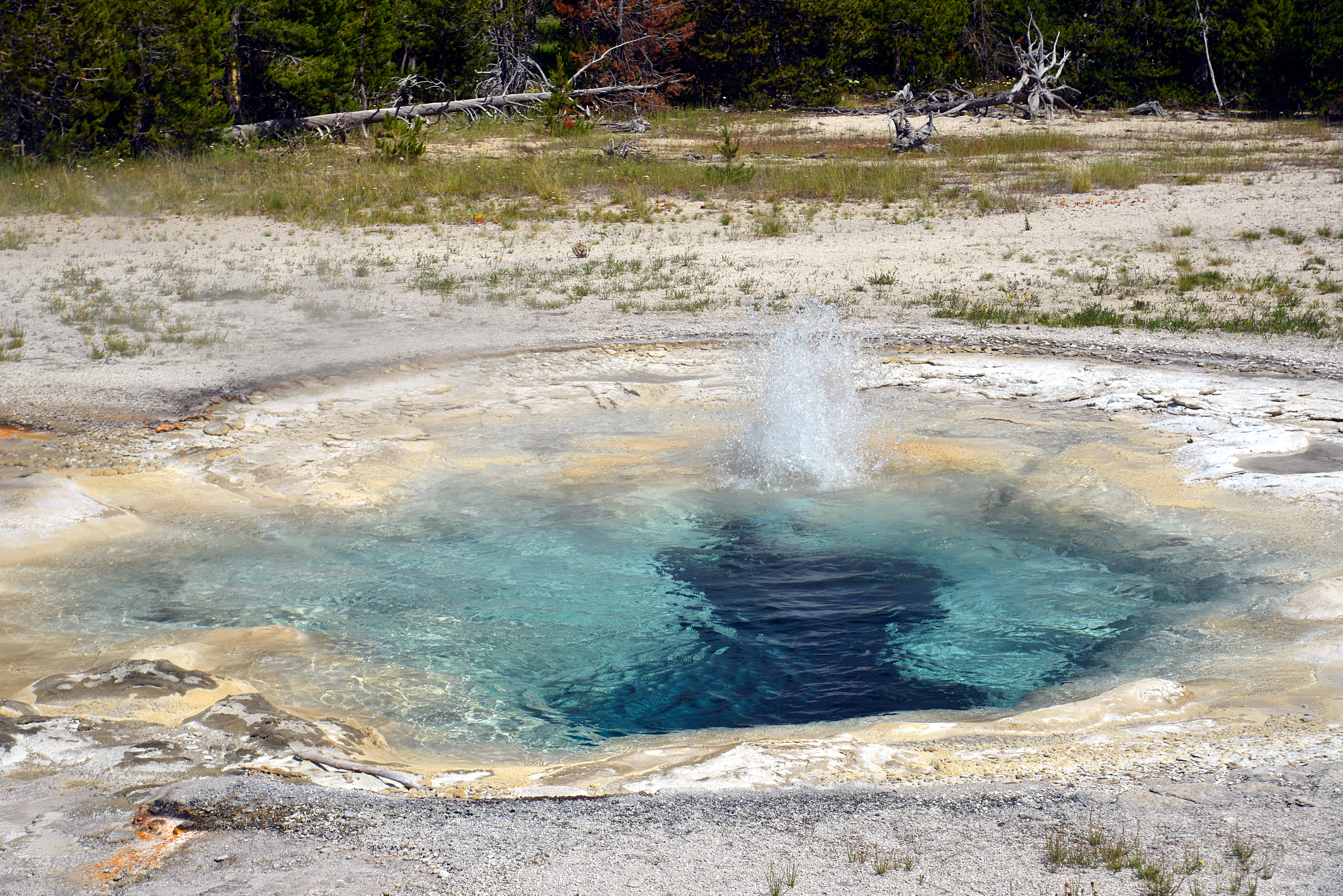 A small eruption of Spasmodic Geyser. A small fountain of water comes up from the center of the pool.